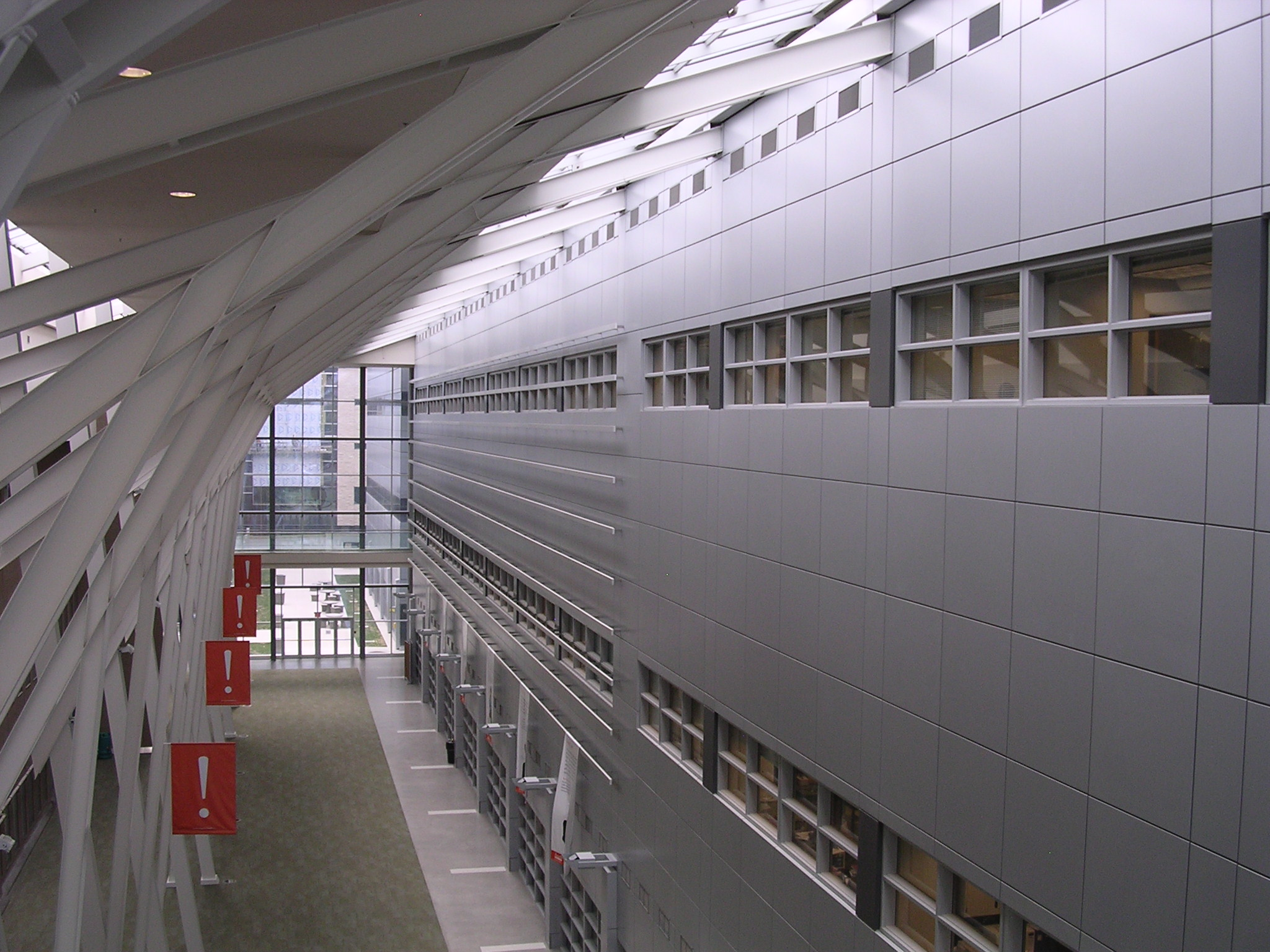 Picture of the HRIC Atrium, which opens up into new space for the Libin Institute